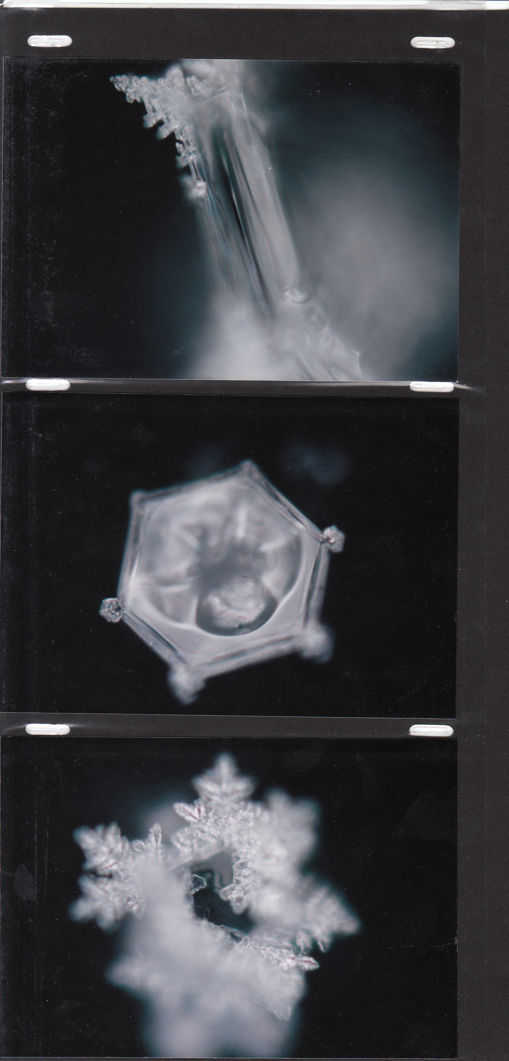 Bora Yoon's "Sons Nouveaux", from album ( (( PHONATION )) ) (Swirl Records, 2008) -- in collaboration with IHM Labs, Tokyo -- in frozen water form.